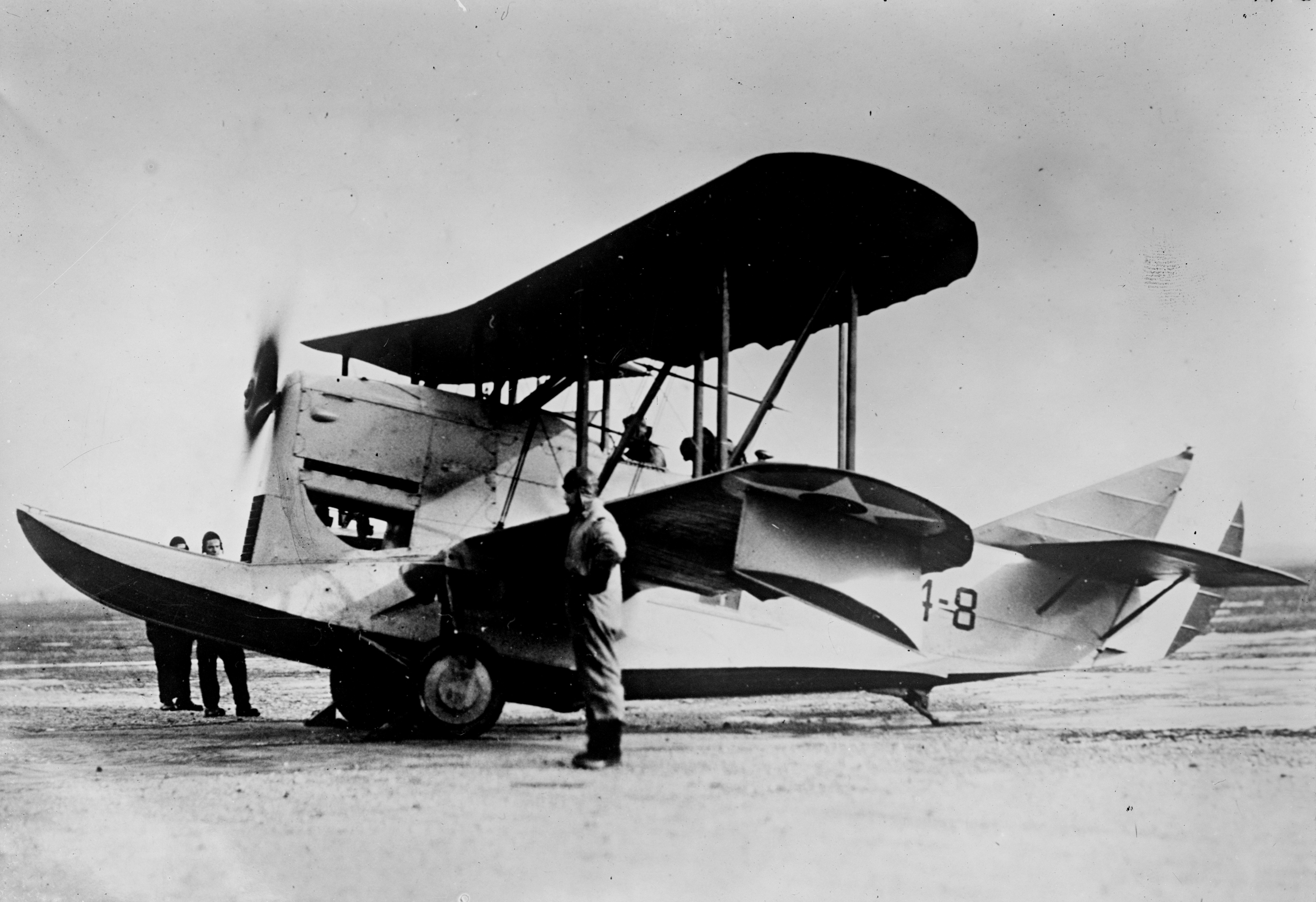 A U.S. Navy Loening OL/OA-1A amphibian, 1923.